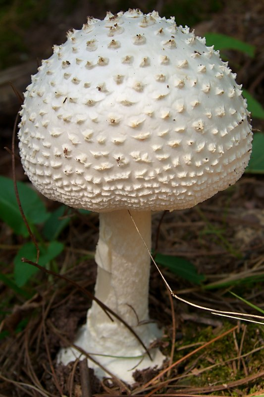 Scientific Name: Amanita muscaria var. alba Common Name: White Fly-Agaric Certainty: positive (notes) Location: Central Appalachians; George Washington NF; Shenandoah Mt